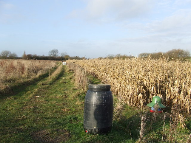 Bird feeding area Field of maize kept for the feeding and rearing of game birds near to Somerton Suffolk.